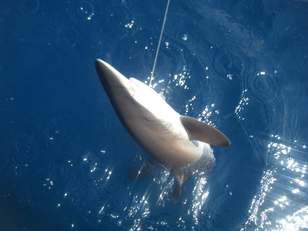 Silky shark (Carcharhinus falciformis) caught off Colima, Mexico